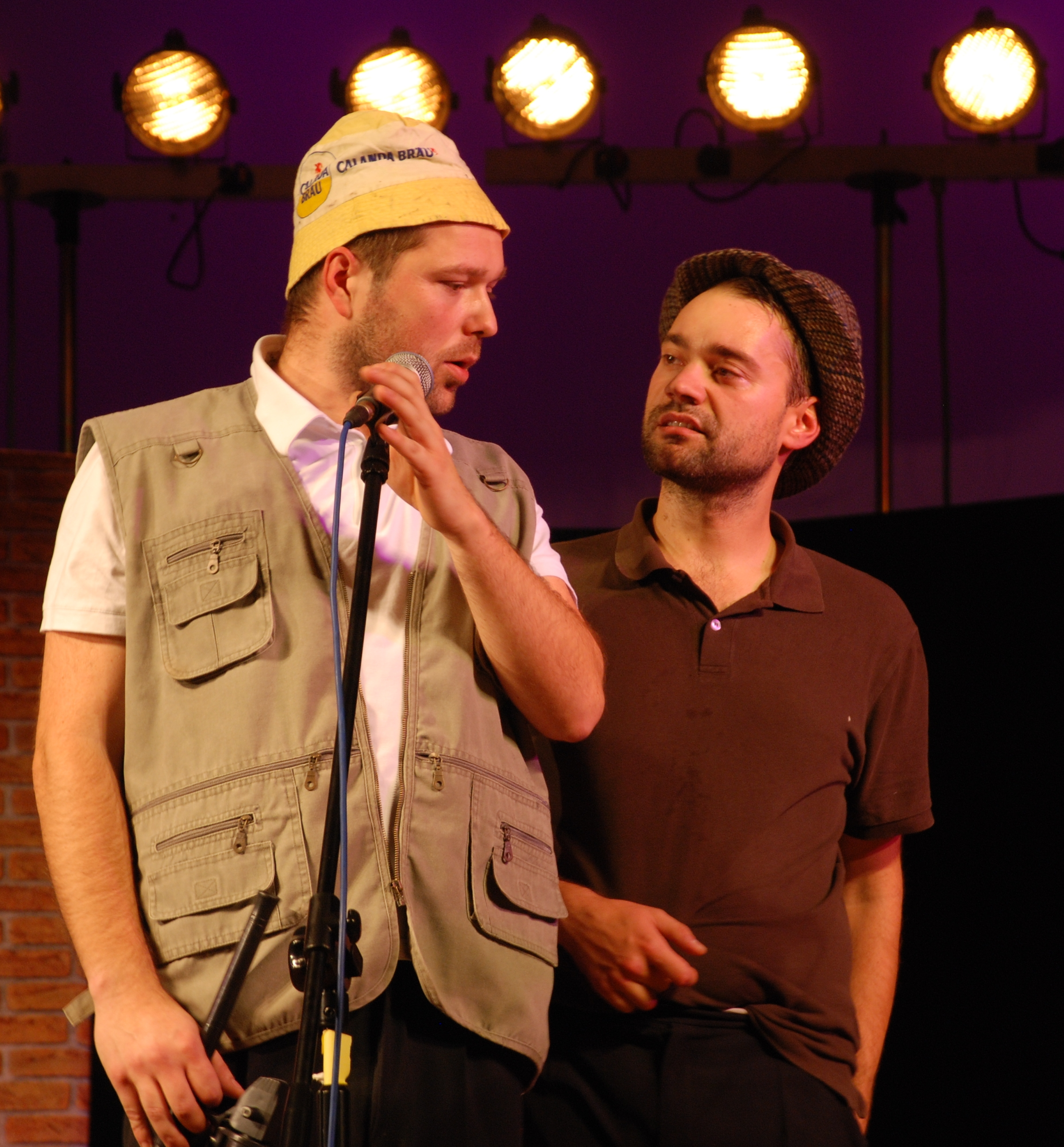 (From the left:) Jarosław Cyba and Adam Mrozowicz of Kabaret Dno during their performance on the second day of the 2007 Festival of Cabaret in Zielona Góra.